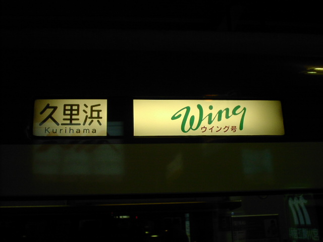 京浜急行2100系 品川にて Keihin Electric Express Railway type 2100 at Shinagawa.